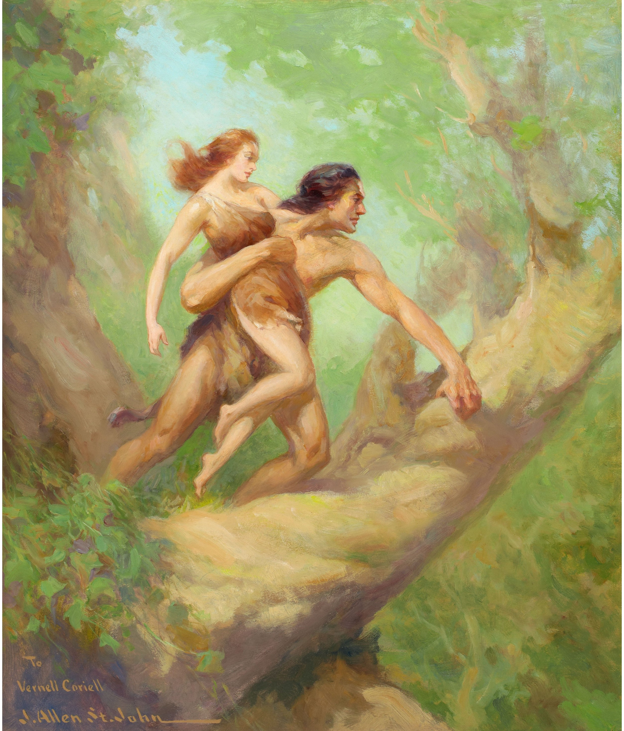 James Allen St. John, Tarzan and His Mate, 1947. Oil on canvas. 22.5 x 19 in. Signed lower left.